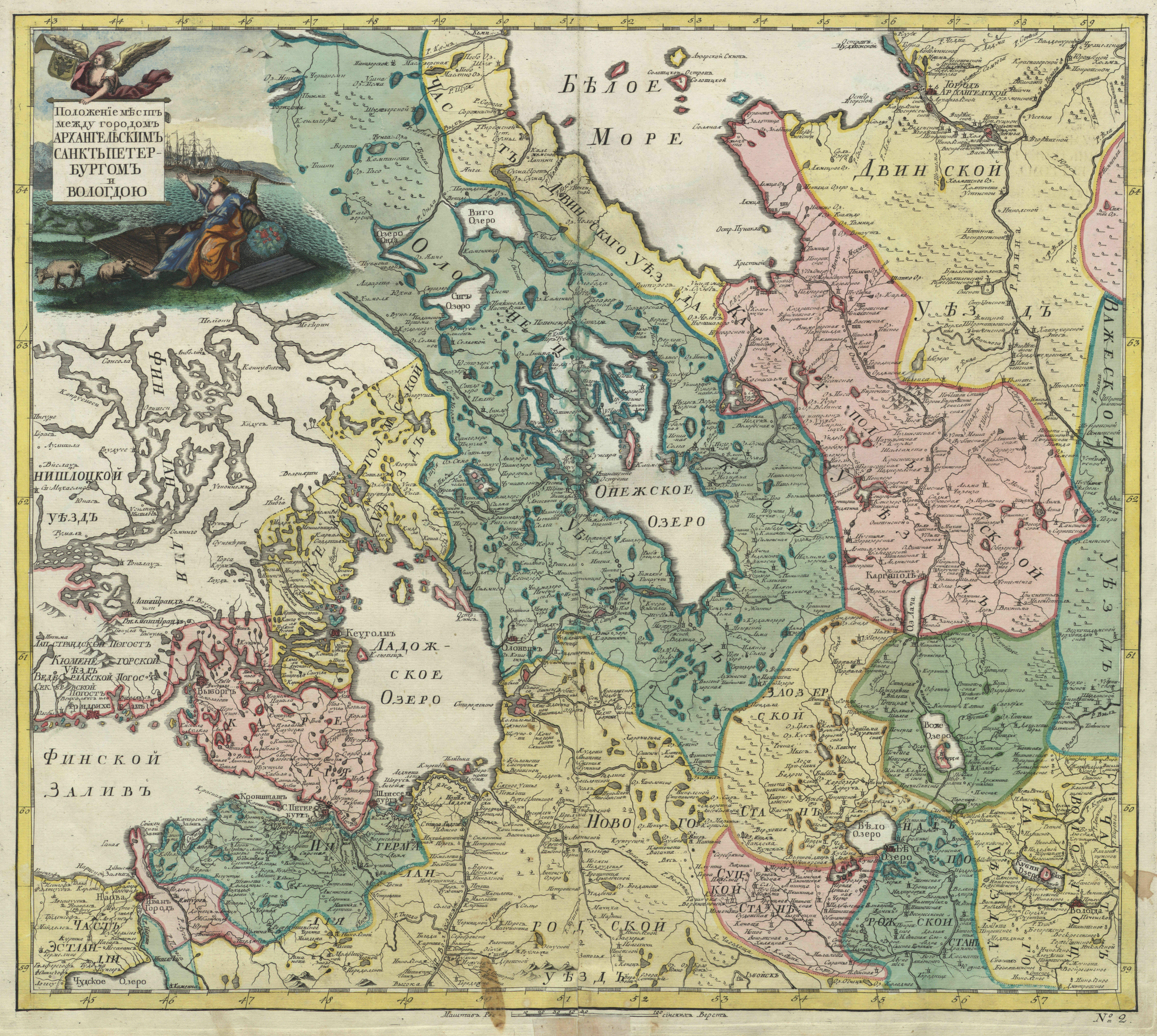 First official geographic atlas of the Russian Empire (1745). Map of places between Arkhangelsk, St. Petersburg and Vologda. Hand-coloured copper engraving.